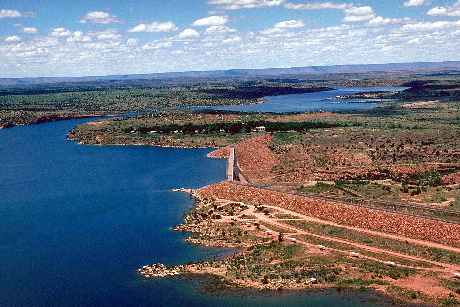 Aerial view of Conchas Dam, impounding Conchas Lake on the Canadian River in San Miguel County, New Mexico, USA. This photograph shows only the concrete water-control structure and part of the earthen structure of the dam. The dam actually comprises three segments, most of which is earth-fill, and is over two miles (3.2 km) in length. The dam is located approximately 30 miles (48 km) northwest of Tucumcari, New Mexico. View is upriver to the north-northwest. Coordinates: 35°24′10.01″N 104°11′25.16″W / 35.4027806°N 104.1903222°W